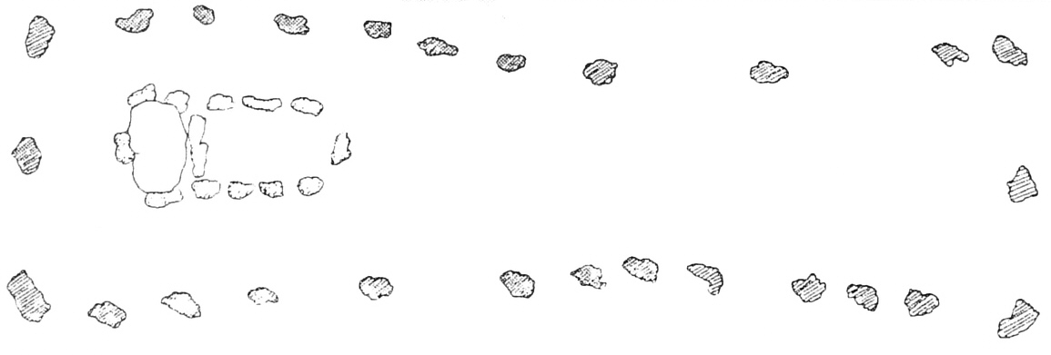 Outline of the dolmen Beesewege, Saxony-Anhalt